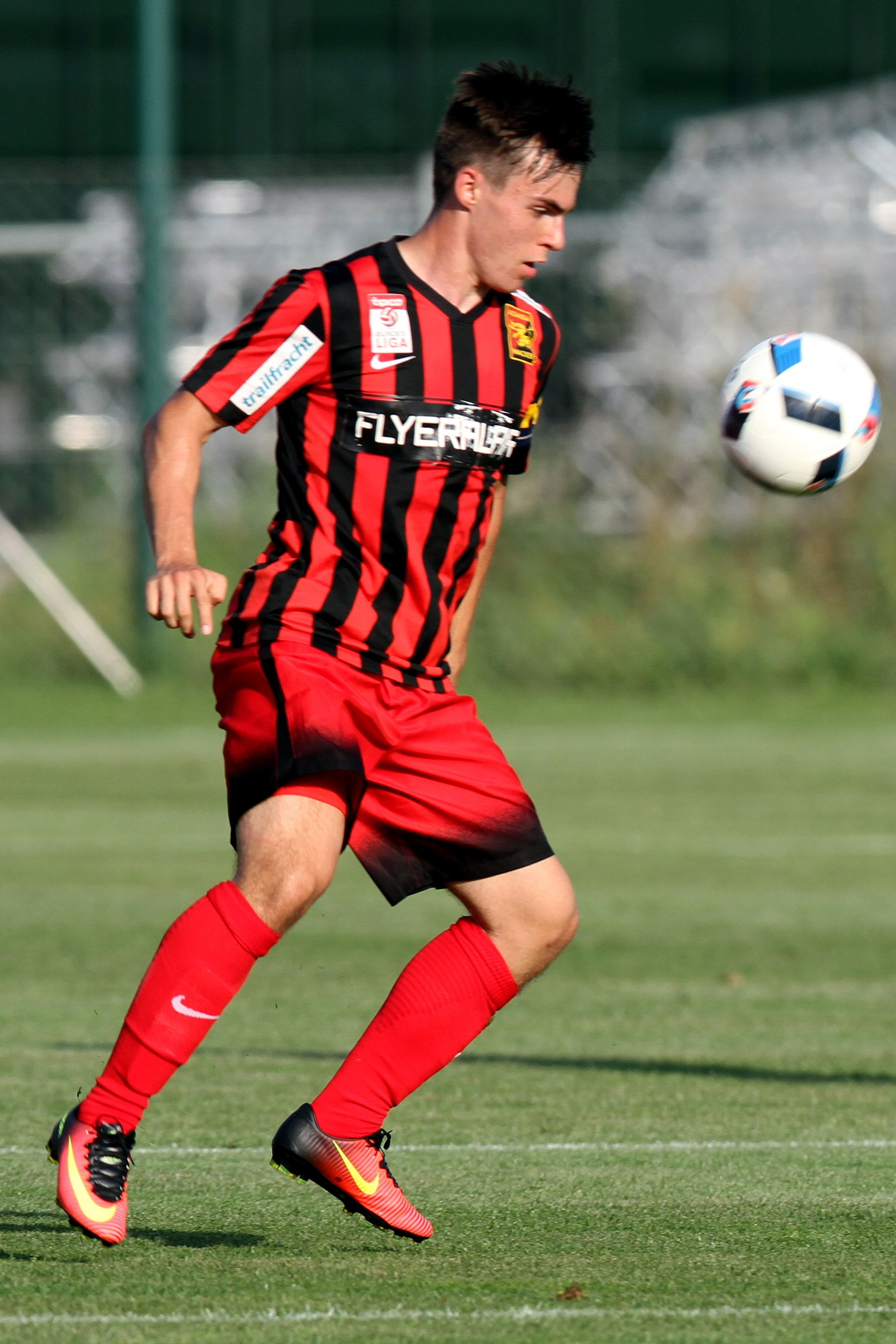 Friendly match FC Terek Grozny vs. FC Admira Wacker Mödling (0-1) at 2016-06-24 in Bad Erlach – The photo shows Florian Fischerauer (FC Admira Wacker Mödling).